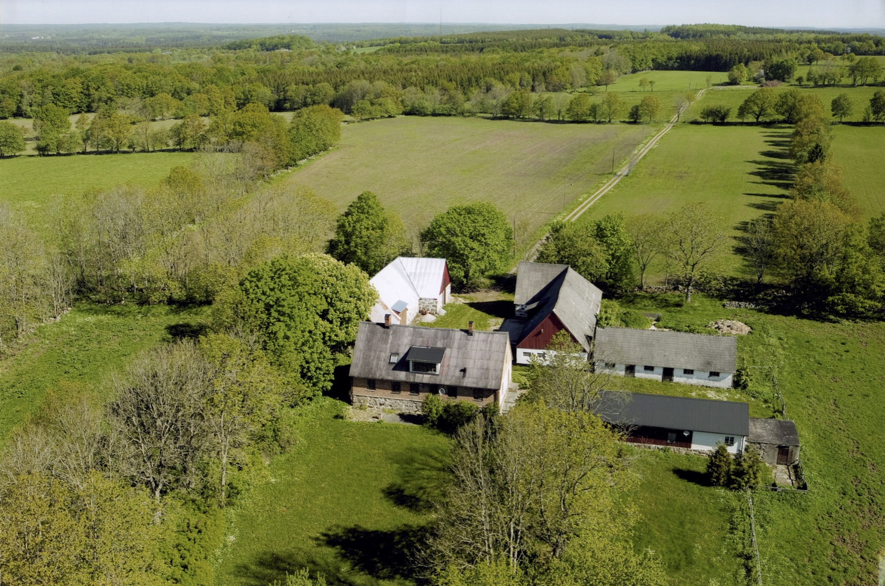 Kvihusa picture by Air.